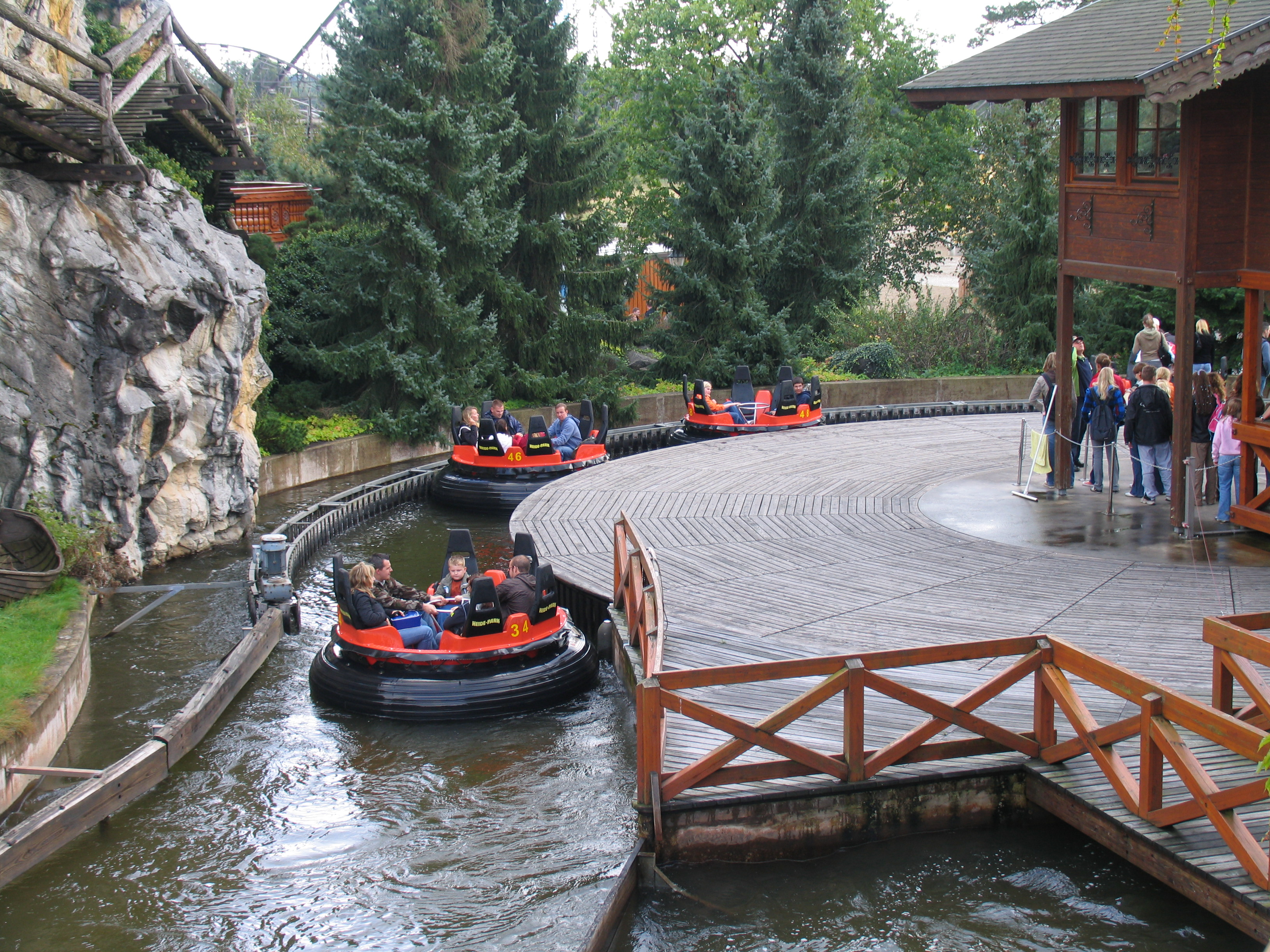 Station of Mountain Rafting at Heide-Park, Soltau, Germany